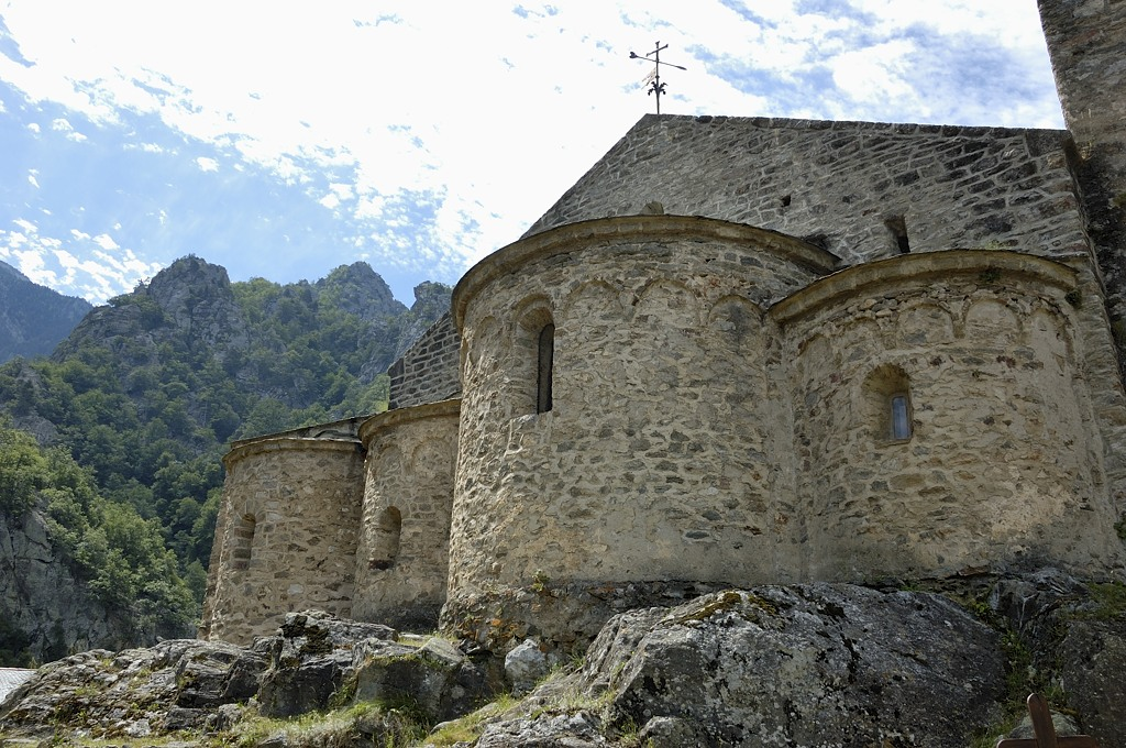 Saint-Martin-du-Canigou, Casteil